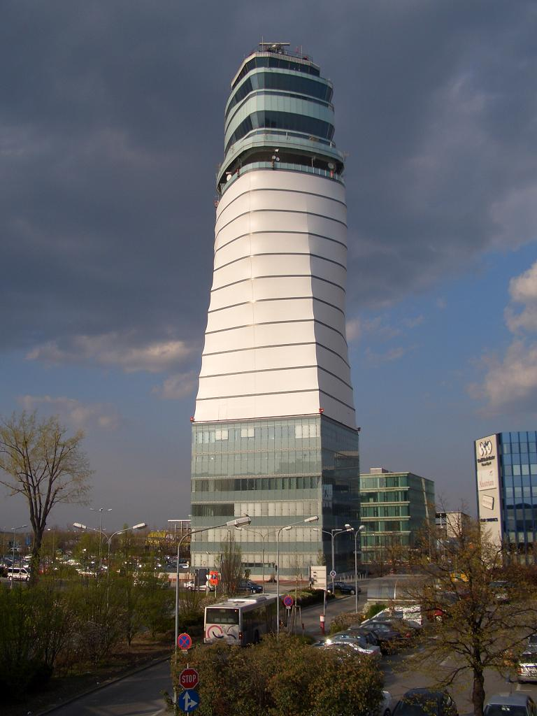 The distinctive designed control tower of Vienna Airport